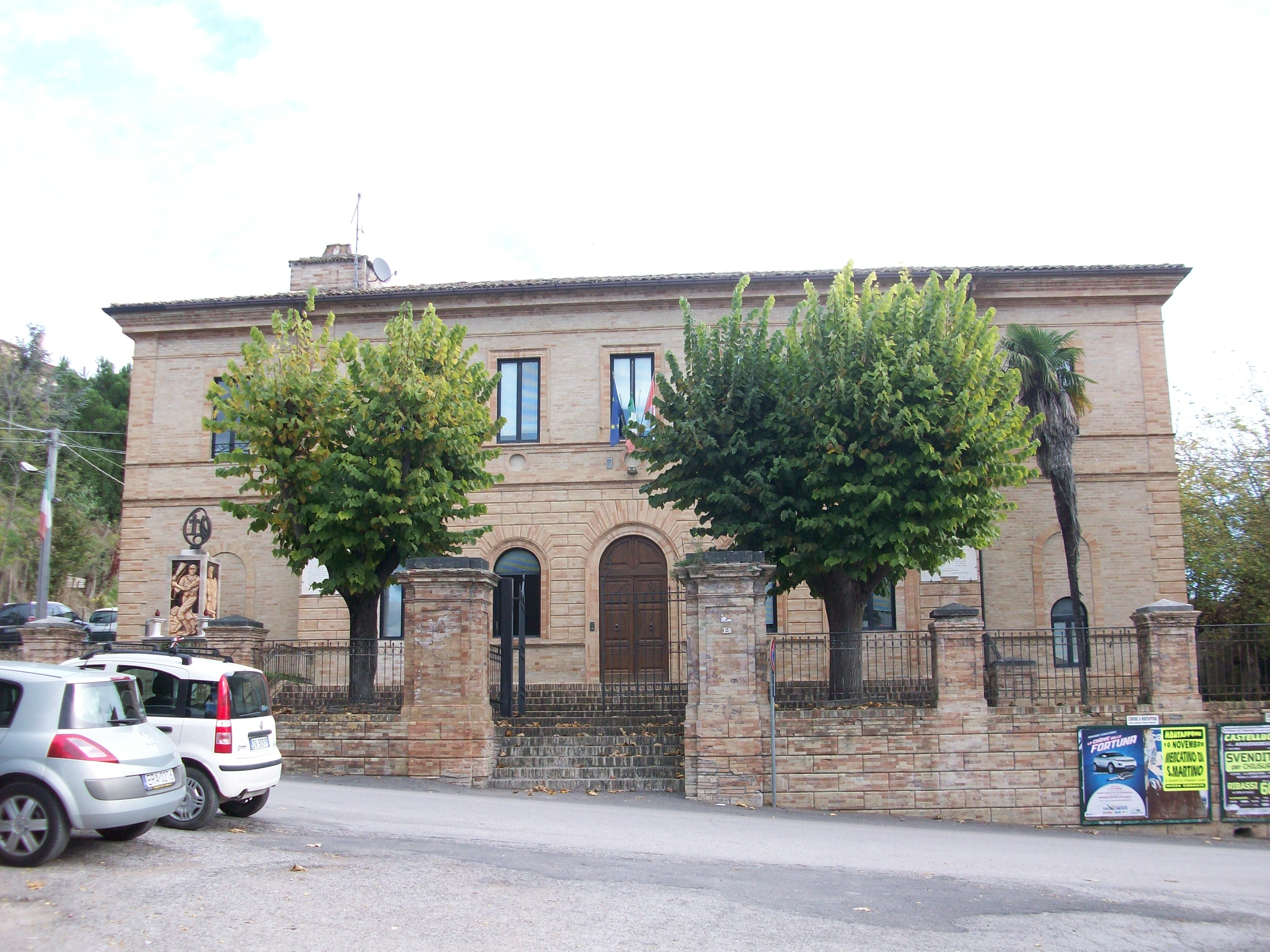 Montappone town hall